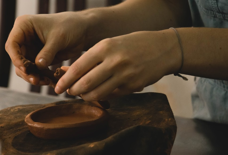 Ceramics workshop